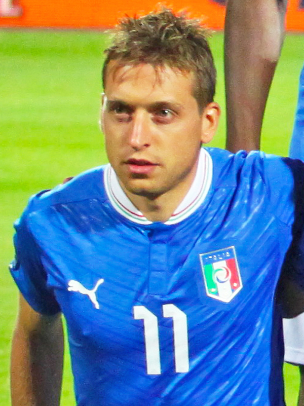 Emanuele Giaccherini before the football game with Bulgaria, "Vasil Levski" stadium, Sofia, Bulgaria, September 7, 2012